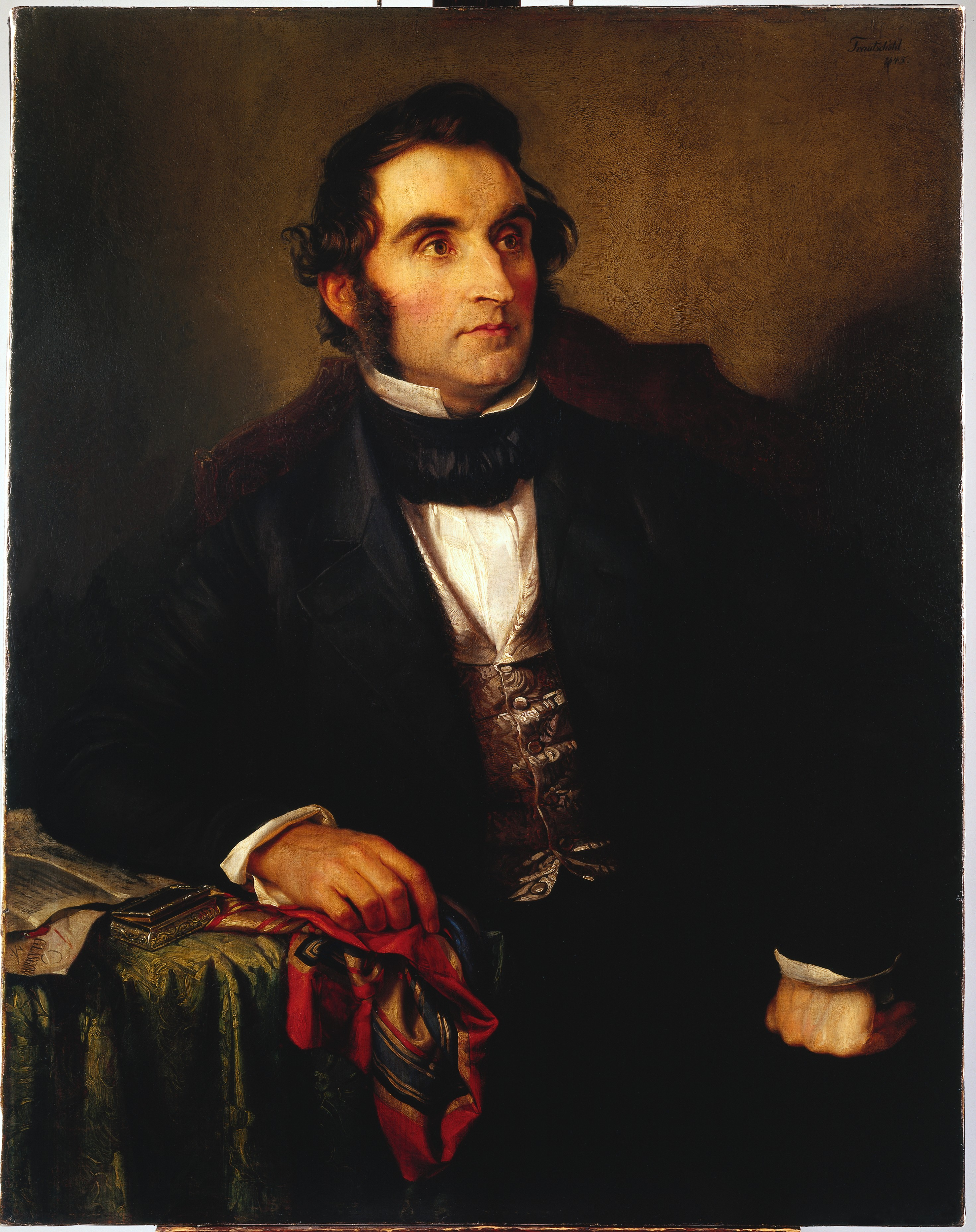 Justus von Liebig (1803-1873), chemist Iconographic Collections Keywords: Carl Friedrich Wilhelm Adolph Trautschold